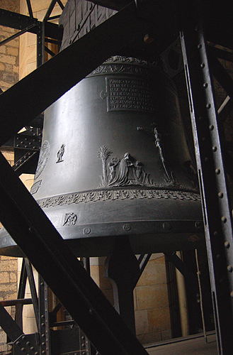 Zikmund is the biggest bell in the st. Vitus cathedral in Prague and also in the whole Czechia – it is 2 m high and 17t heavy.